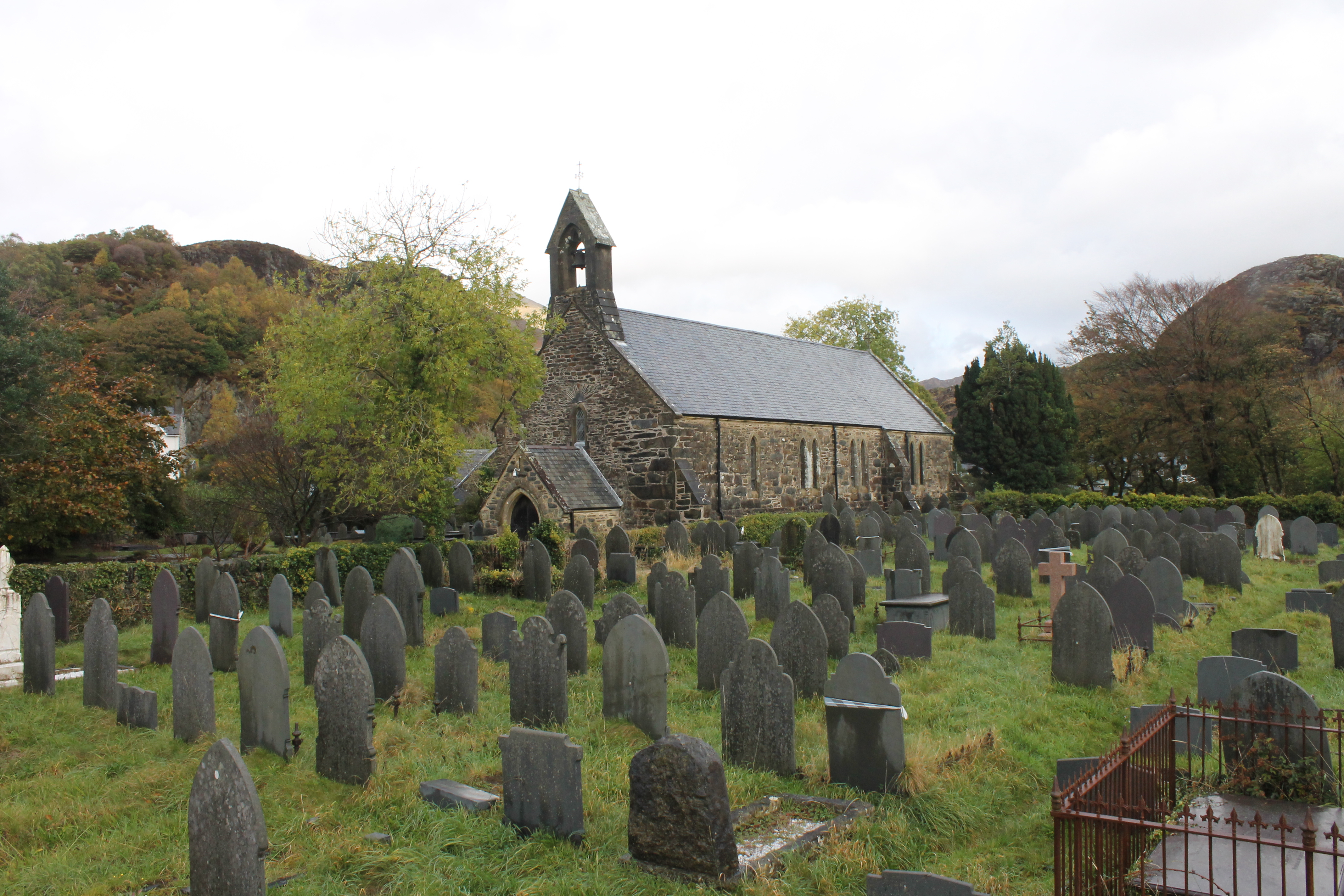 St Mary's church, Beddgelert, Gwynedd, Wales. Church and graveyard.